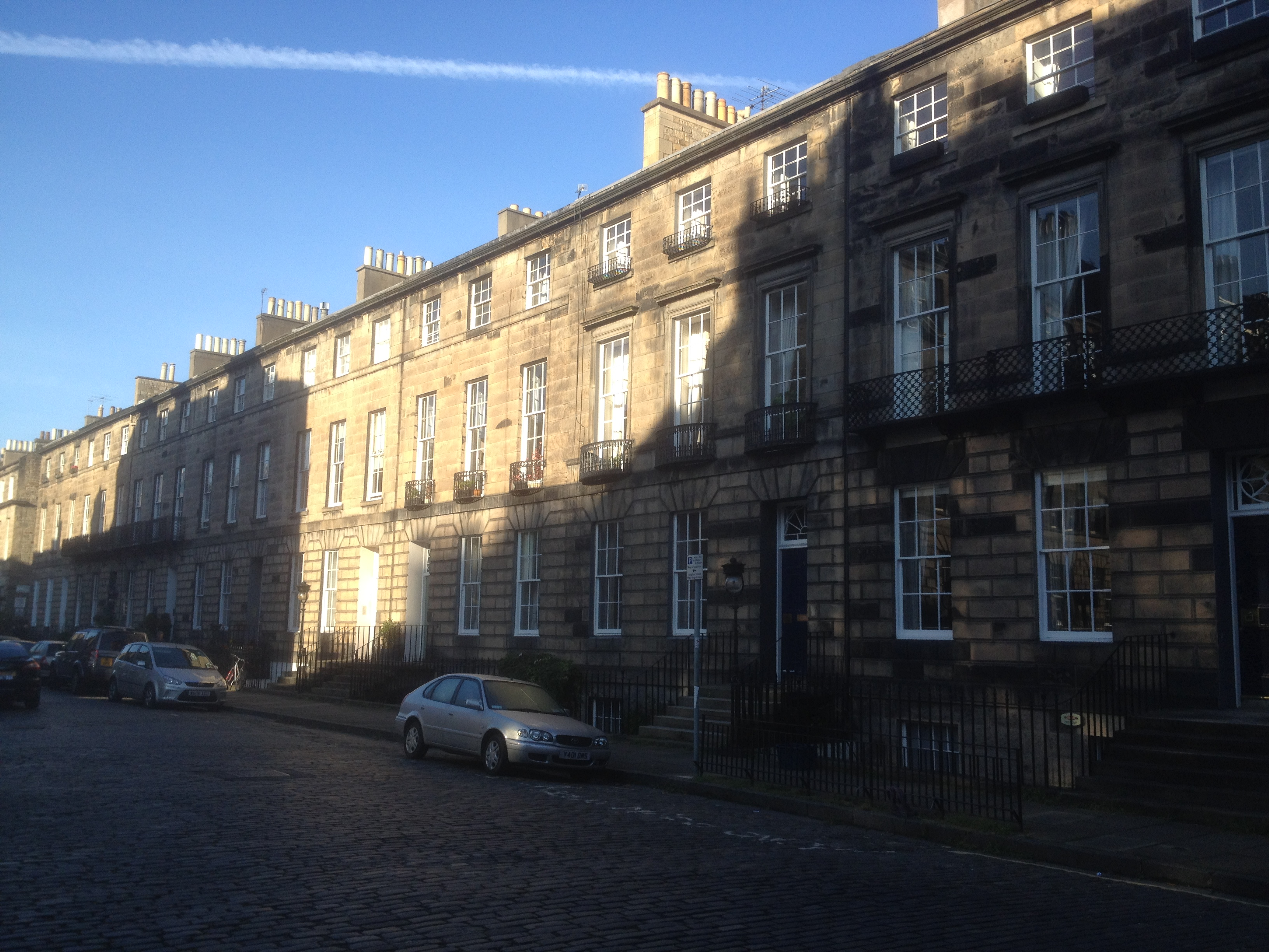 Northumberland Street 3-17, Edinburgh